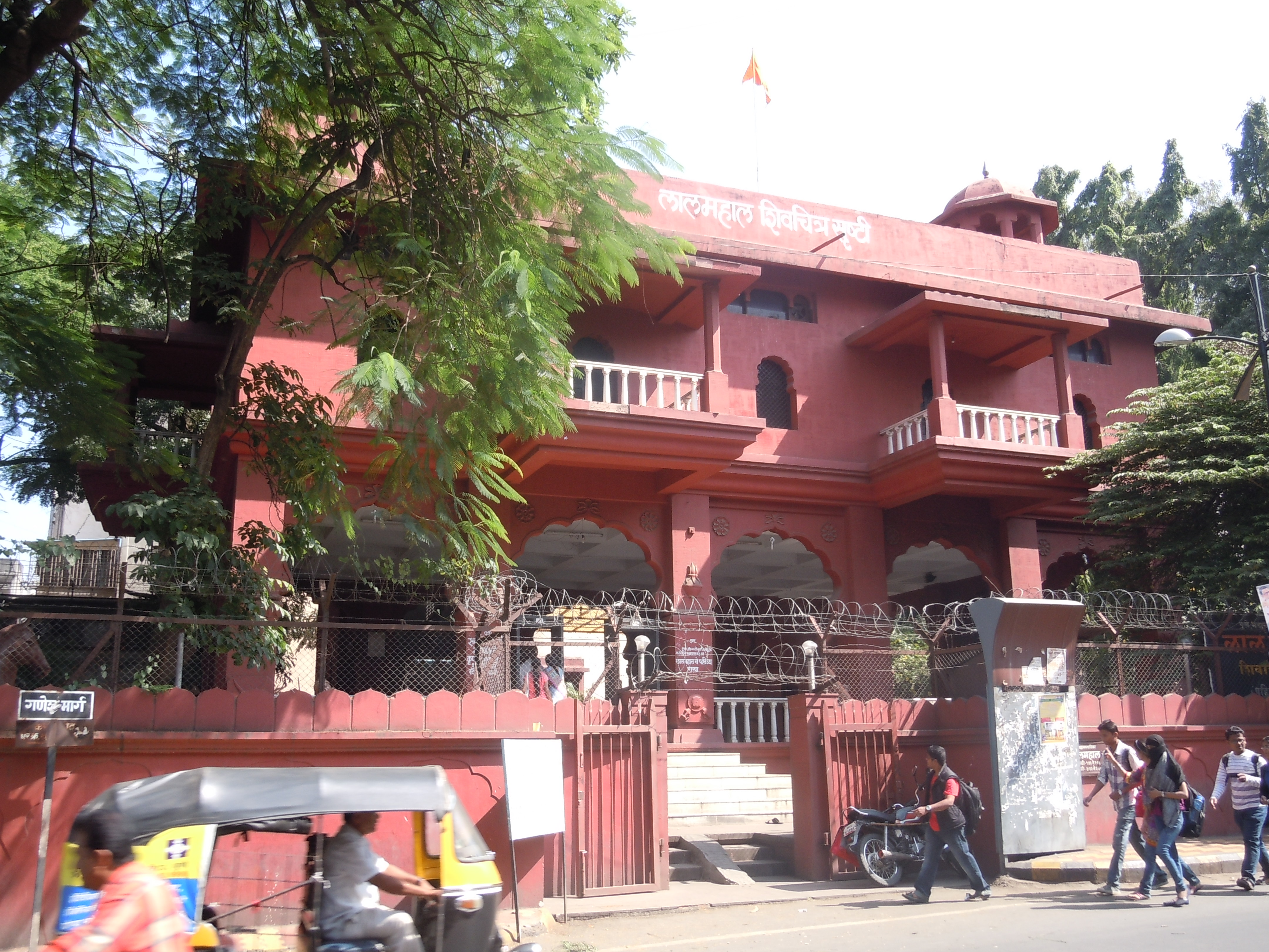 pune,india